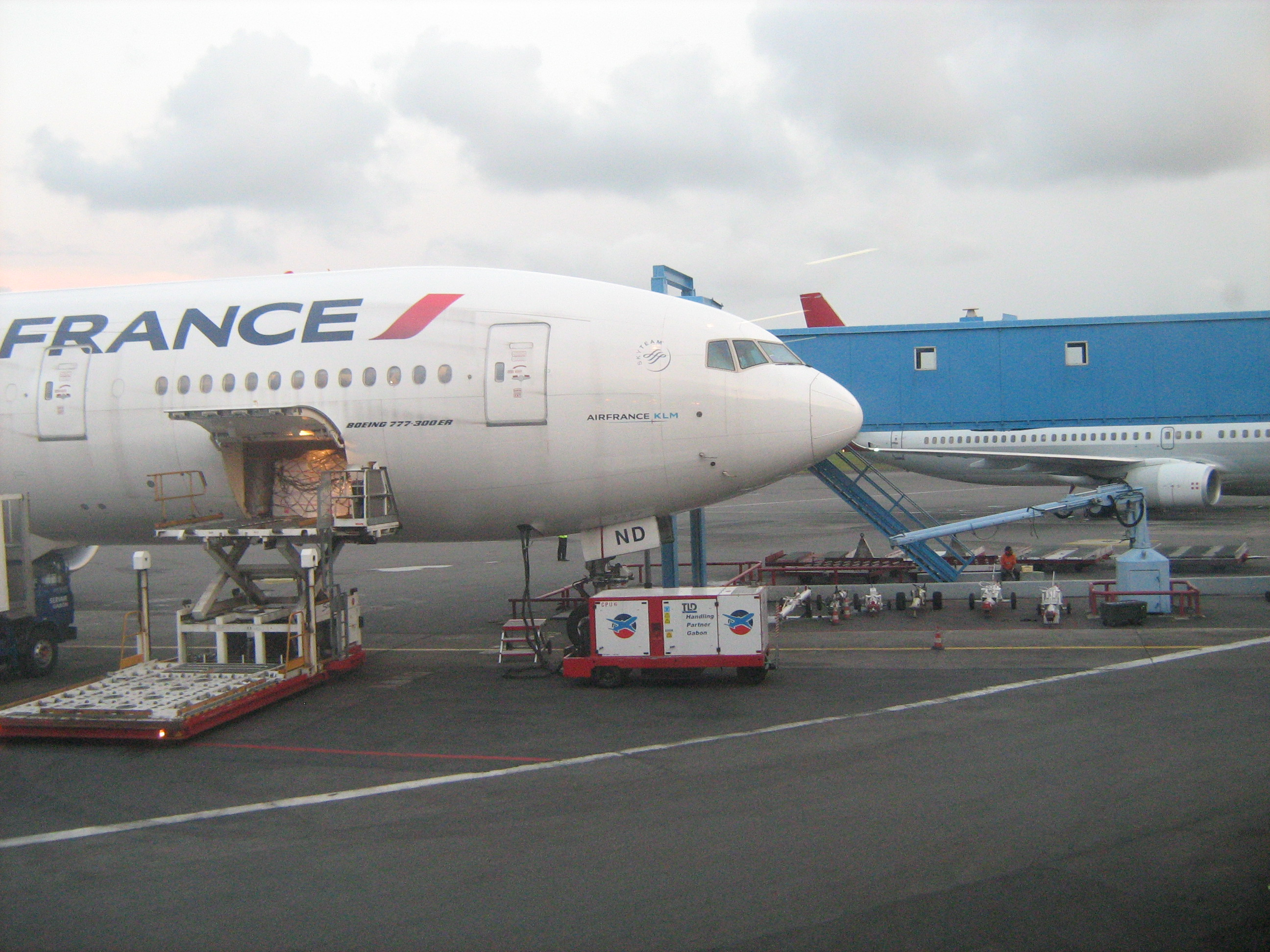 Handling at work in Libreville airport